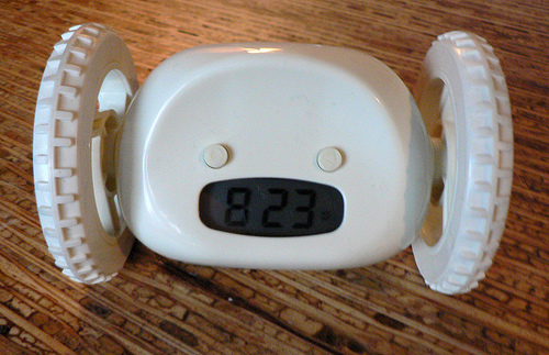 ...Clocky is a small, simple alarm clock flanked on both sides by large wheels. The alarm goes off, you can hit snooze, but the second time, Clocky takes off in a random direction and attempts to hide. I get really mad for about 3 seconds... read more at mahalie dot com